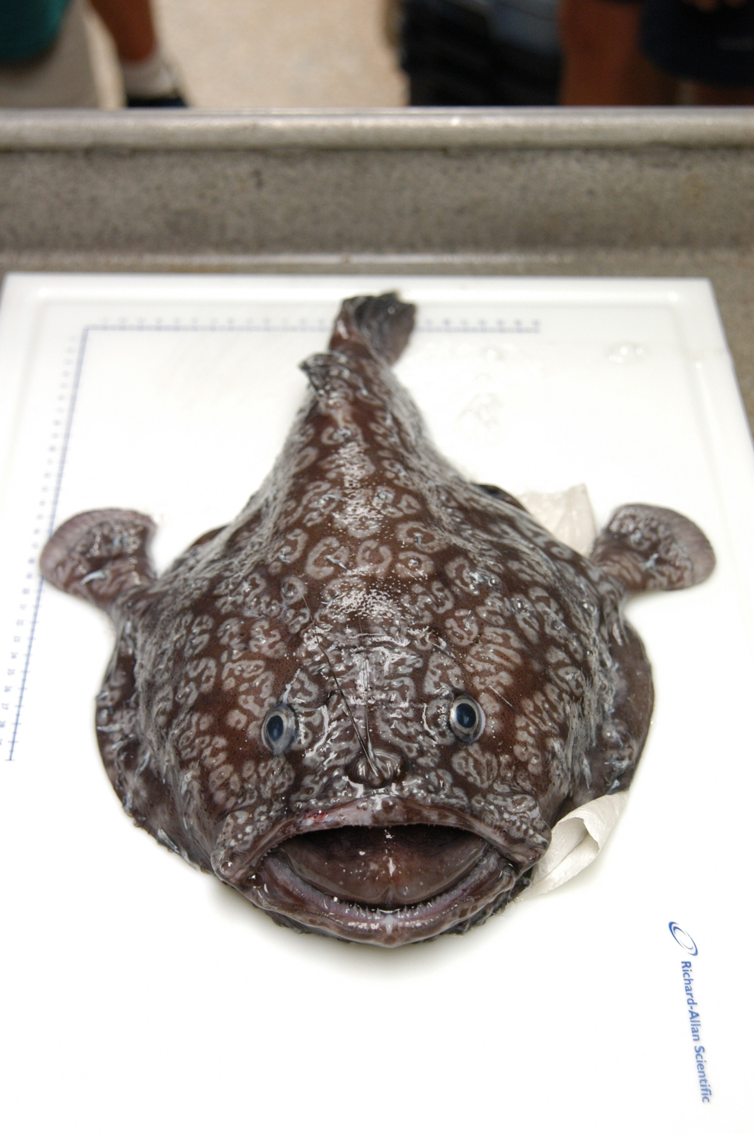 Estuary to Abyss Expedition 2004. Shaefer's anglerfish (Sladenia shaefersi) that was brought up by the Johnson-Sea-Link II submersible. This is the third specimen of this species that has ever been seen. The first was seen off the coast of Colombia in 1976. The "fishing poles" on his head are illiceum, or the first and second spines of the dorsal fin which are used to attract prey.